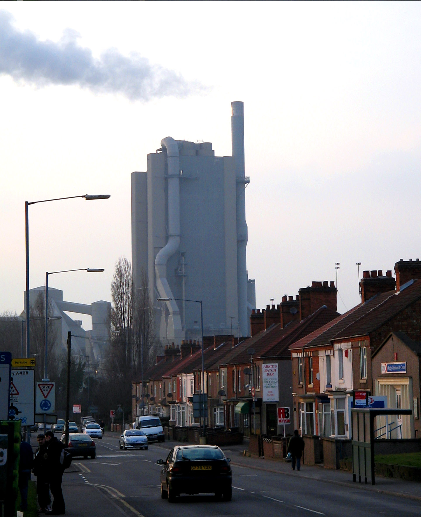 Rugby Cement works in Rugby, seen from Lawford Road. Photo by G-Man * March 2006